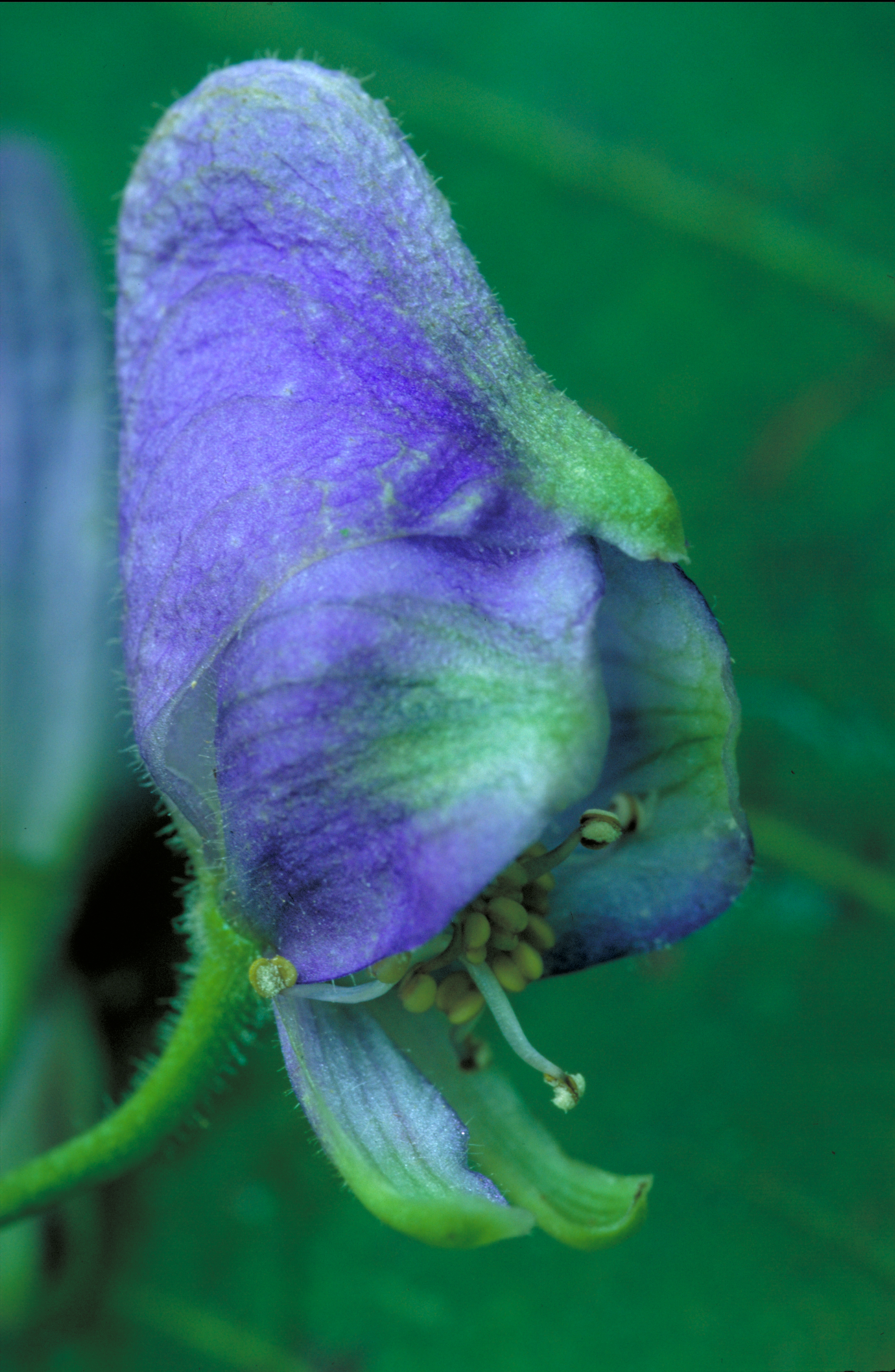 Aconitum uncinatum (southern blue monkshood) flower